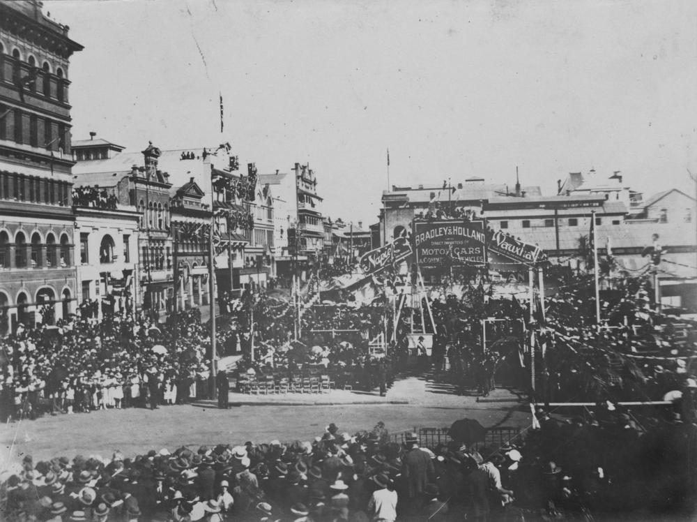 Laying the foundation stone of the Brisbane City Hall. The Prince of Wales laid the Brisbane City Hall foundation stone during his visit in July 1920.